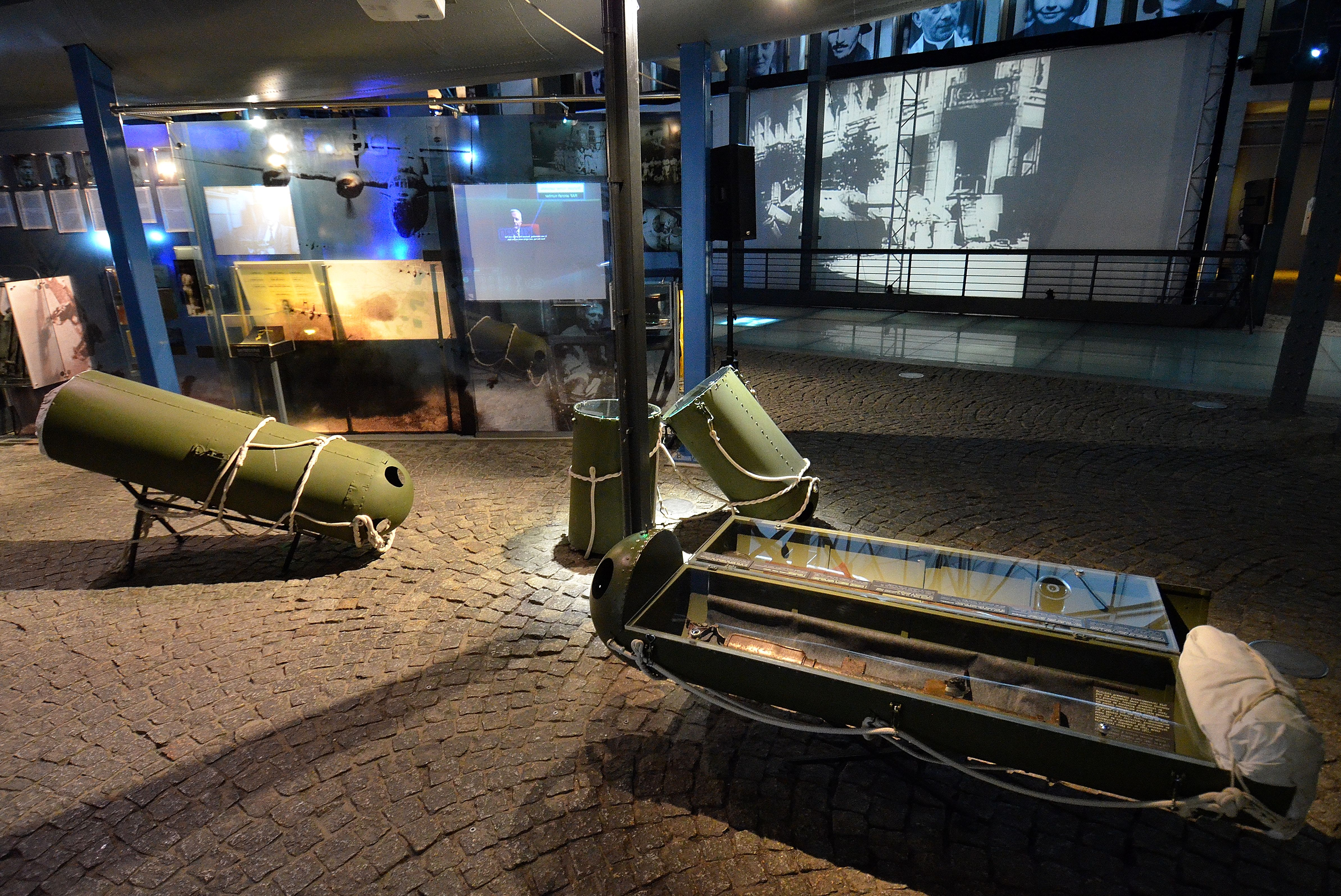 Warsaw Uprising Museum